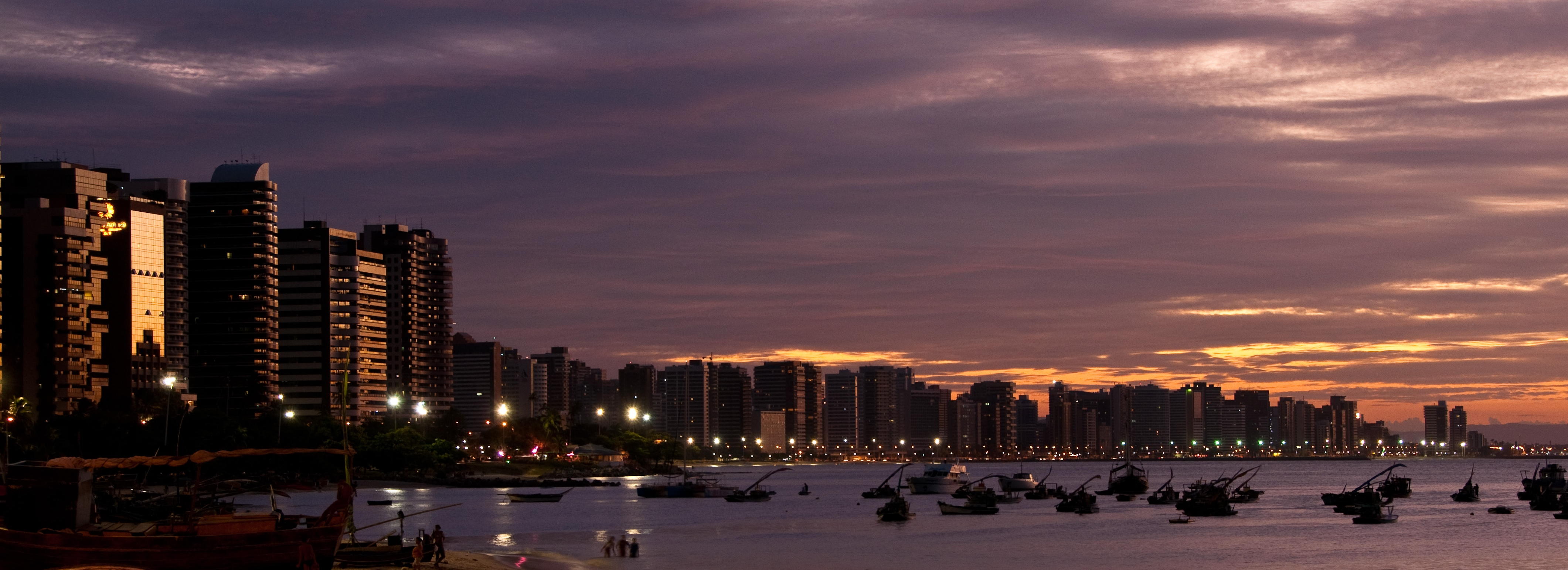 Fortaleza, Ceará, Brazil.